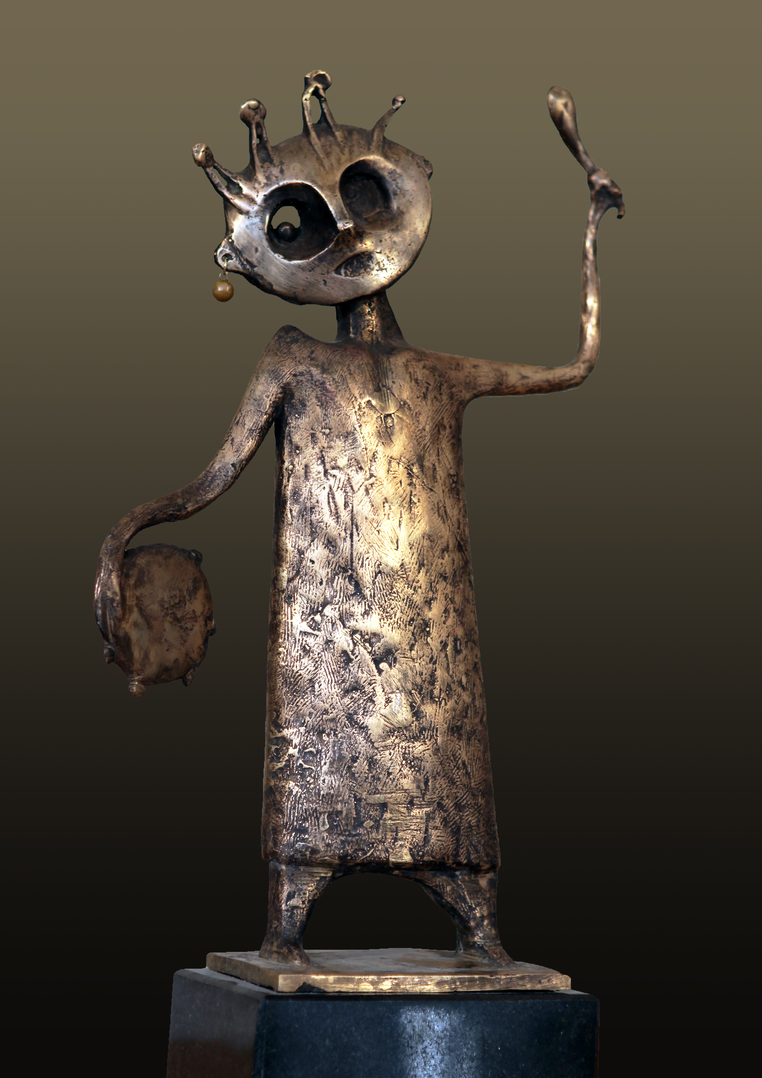 Oskenbay Malik. "Shaman". 2008. Material: brronze, black granite. Size: 45x28x12.